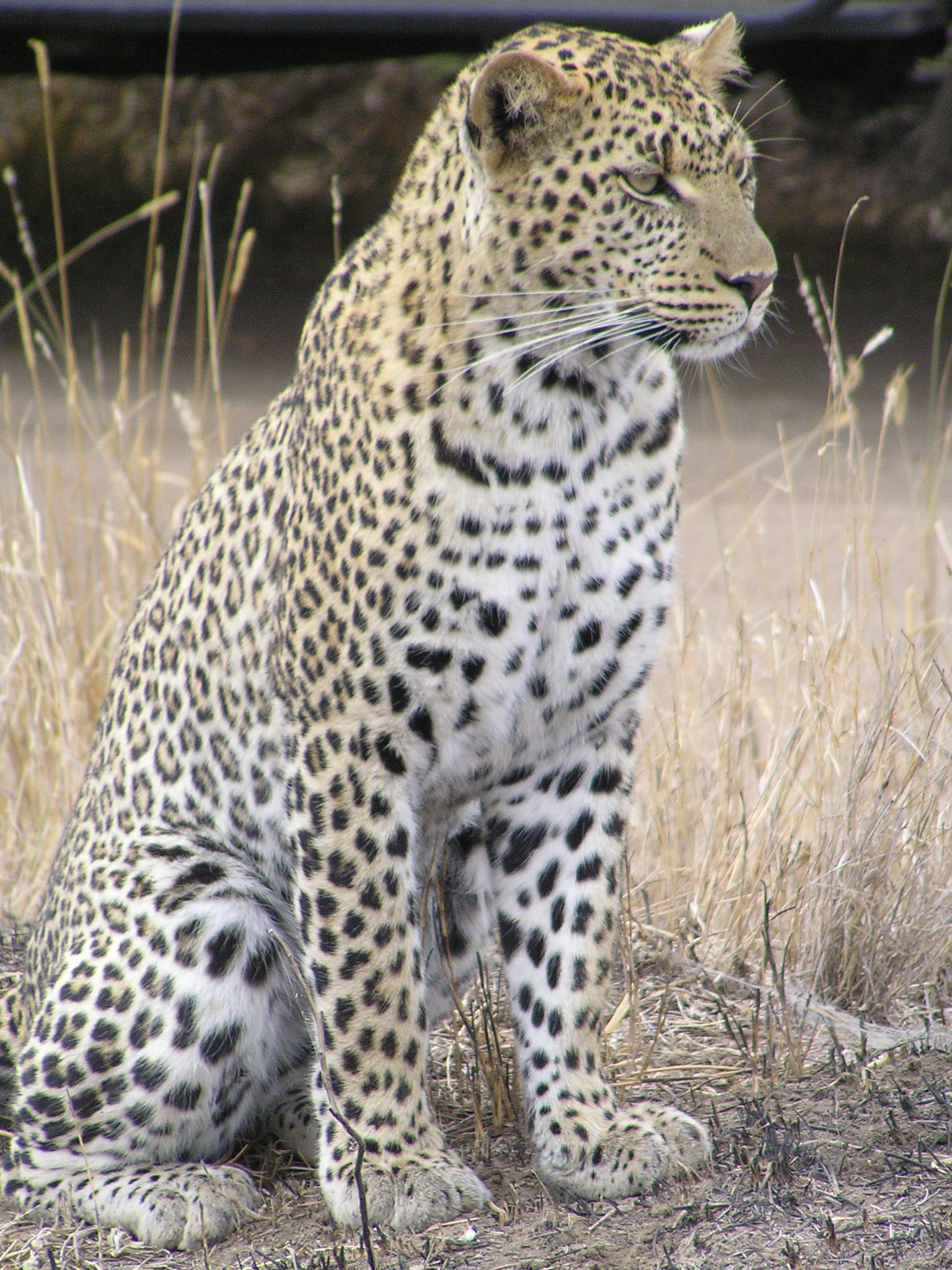 African Leopard in Serengeti, Tanzania.